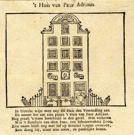 An engraving of the birthhouse of pope Hadrian. Detail of an engraving of 'Famous Dutch Men and Women'.